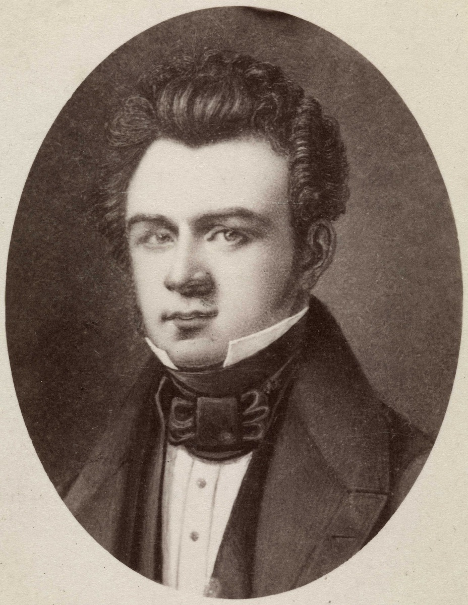 Norwegian mathematician Otto Gilbert David Aubert (1809–1838). Photo from around 1880, but based on an earlier rendering.